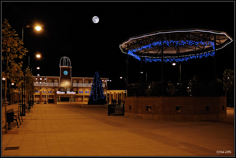 New town hall of Cabanillas del Campo (Guadalajara, Spain), adorned for its first Christmas.